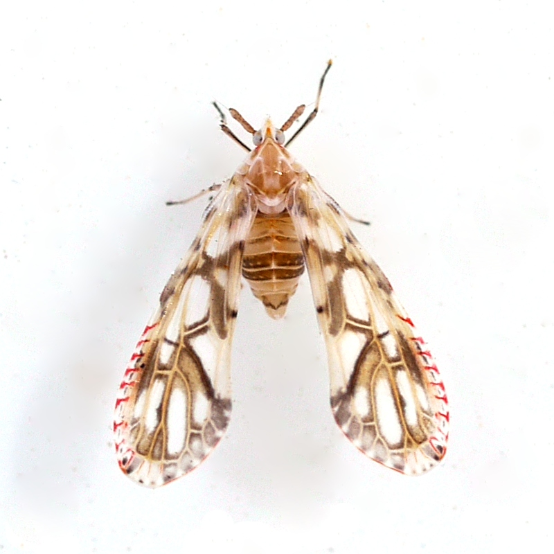 Derbid Planthopper, Species - Anotia kirkaldyi - Cross Plains, WI, USA